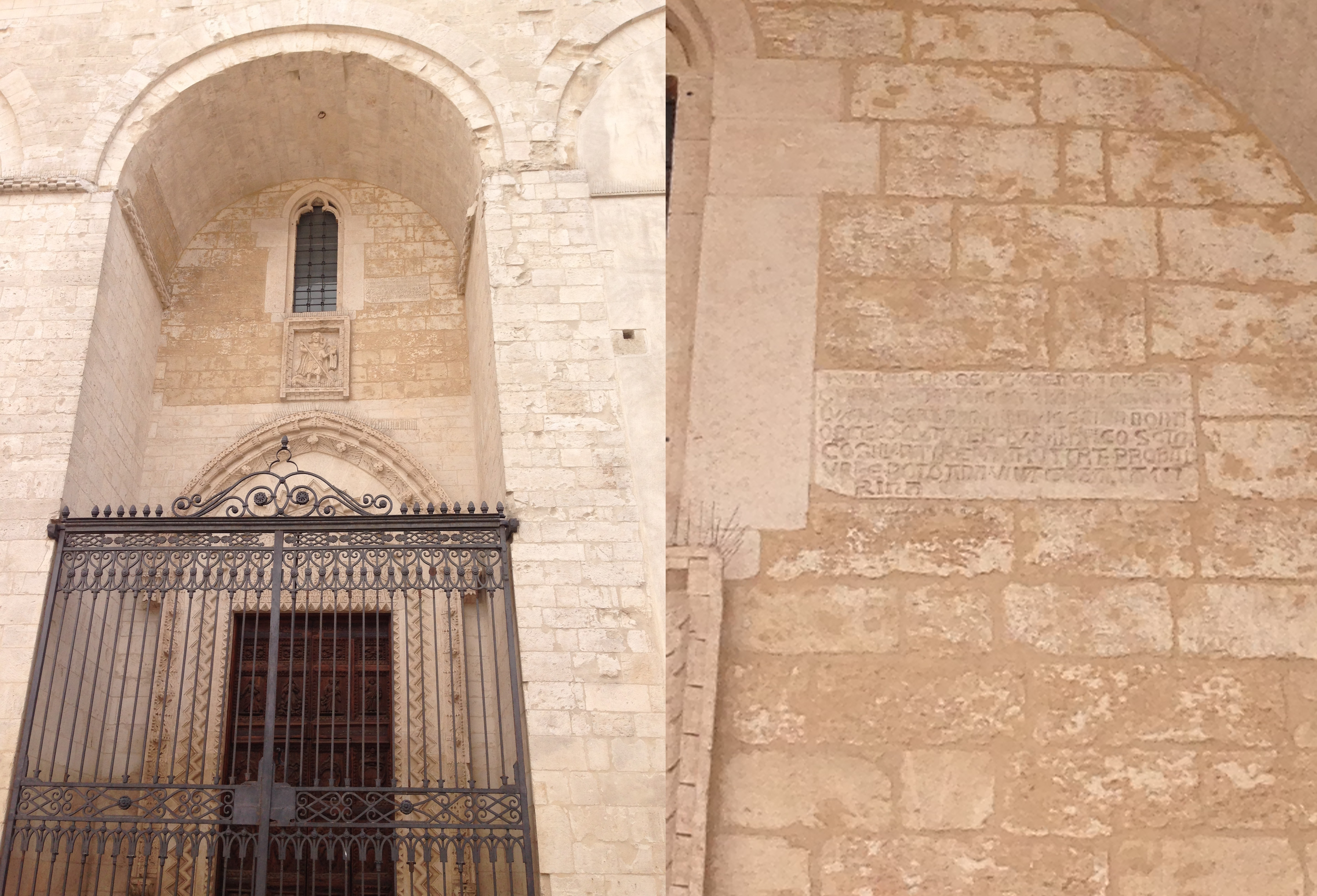 Inscription on one of the two gates of Altamura Cathedral. It says that the cathedral collapsed on January 29, 1316 and it was rebuilt.(Transcribed by Ottavio Serena) Annus millenus sextus denusque tricenus Currebat certus regit et rex regna Robertus Lux non sorte bona Jani vicesimanova O scelus o quantum templum ruit hoc fleo sanctum Consilii nati reapararunt arte probati Urbe Botontina. Vivat gens Altamurina Translated by Ottavio Serena as follows, Correndo l'anno 1316 e reggendo i regni il re Roberto nel giorno malaugurato 29 gennaio ruinò (che disgrazia!) il santo tempio che io piango. I figli di Consiglio della città di Bitonto, esperti nell'arte, lo restaurarono. Viva la gente altamurana.